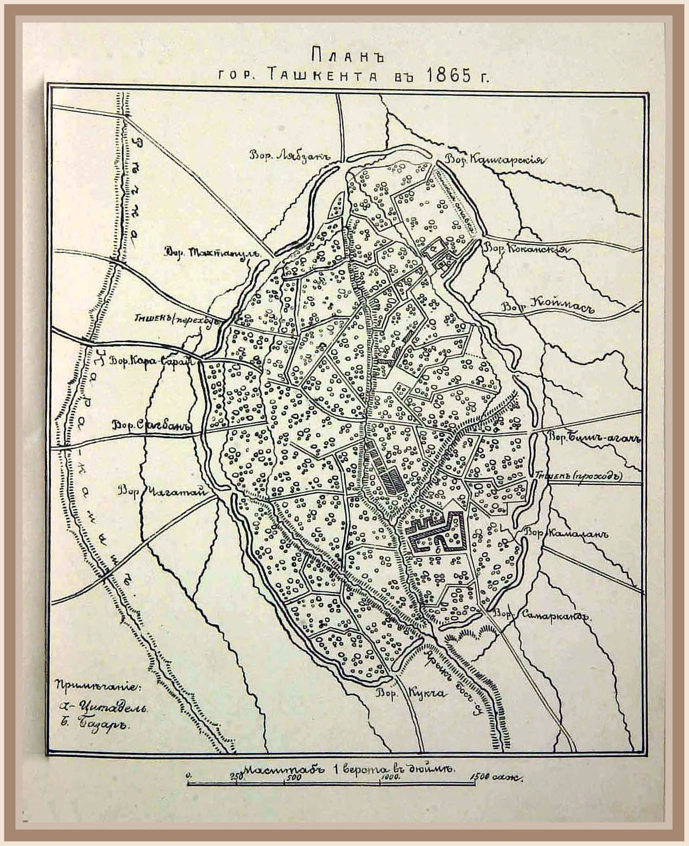 This map was created 140 years ago (1865), and the author is long dead.Sikandarji 22:07, 30 March 2006 (UTC)